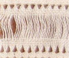 embroidery